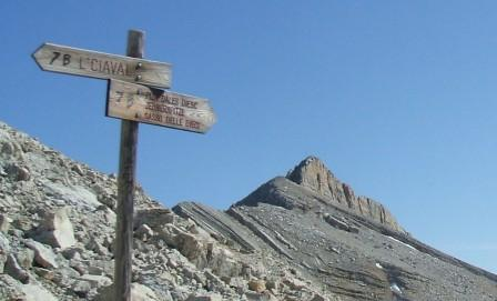 Cima Dieci, Dolomiti Fanes